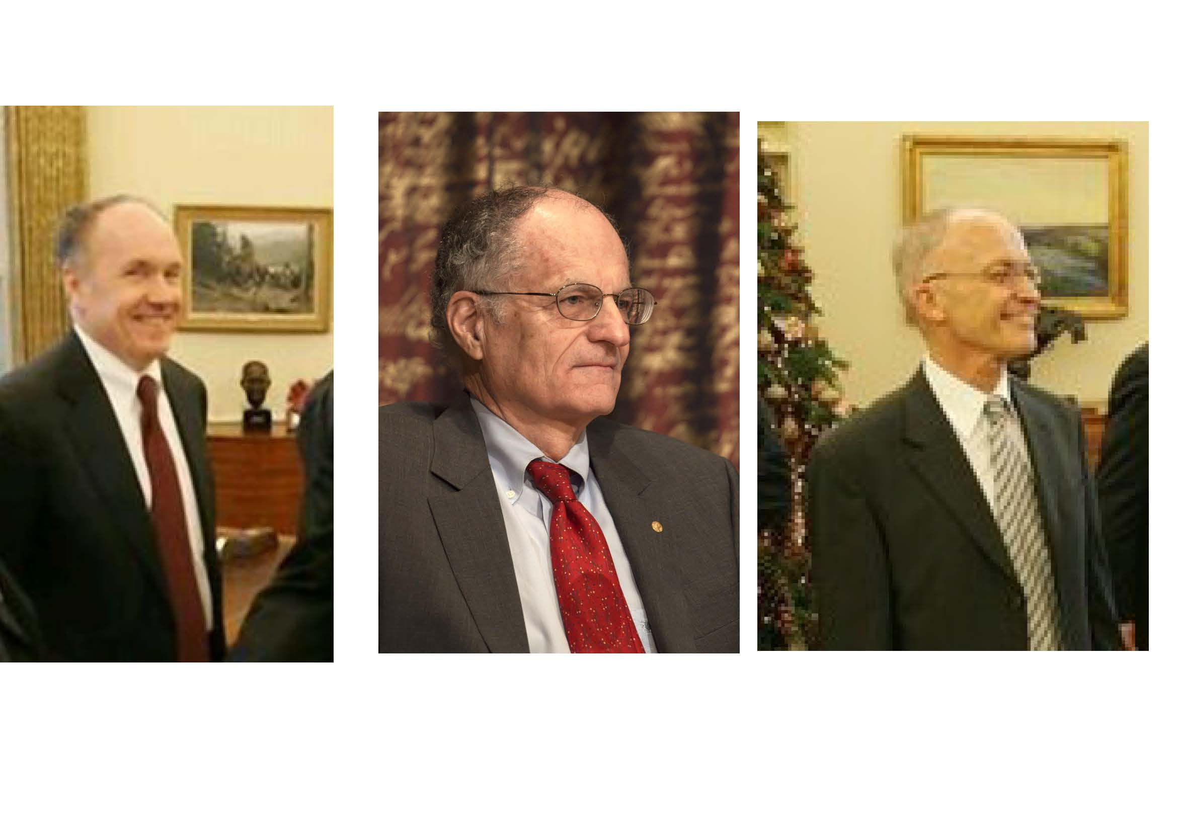 Prescott, Sargent, Finn E. Kydland